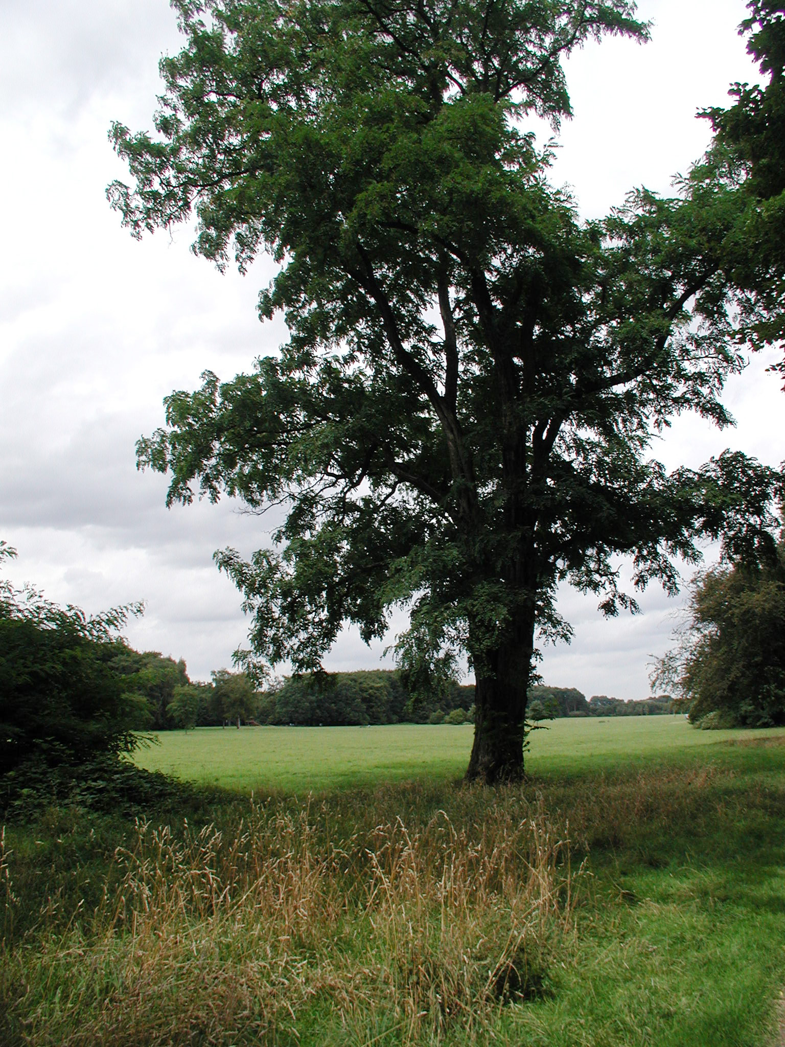 Cologne, landscape "Merheimer-Heide"